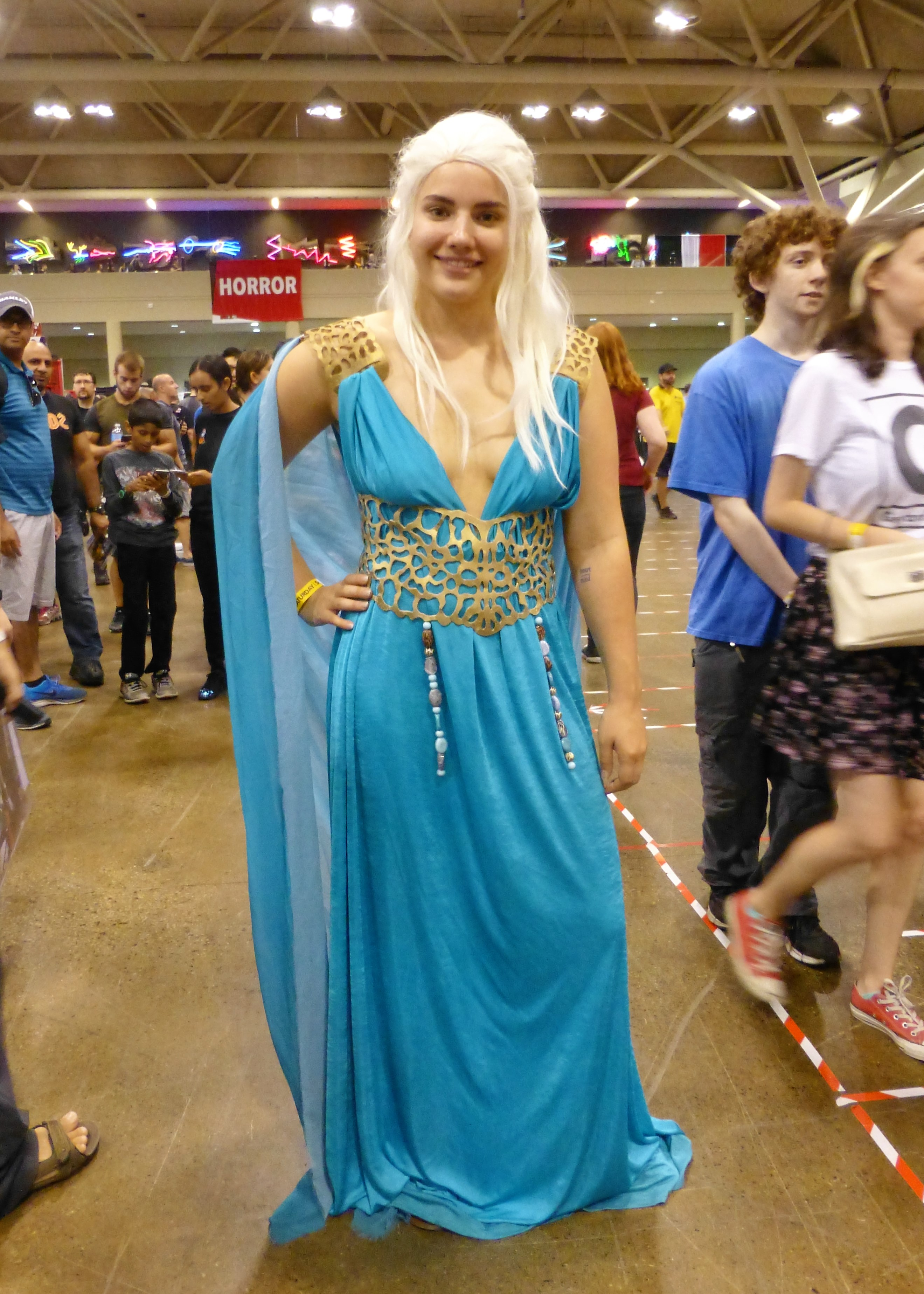 Daenerys Targaryen Cosplay at Fan Expo Canada 2016.